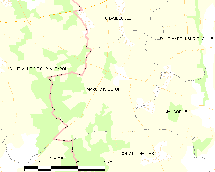 Map of French municipality Marchais-Beton